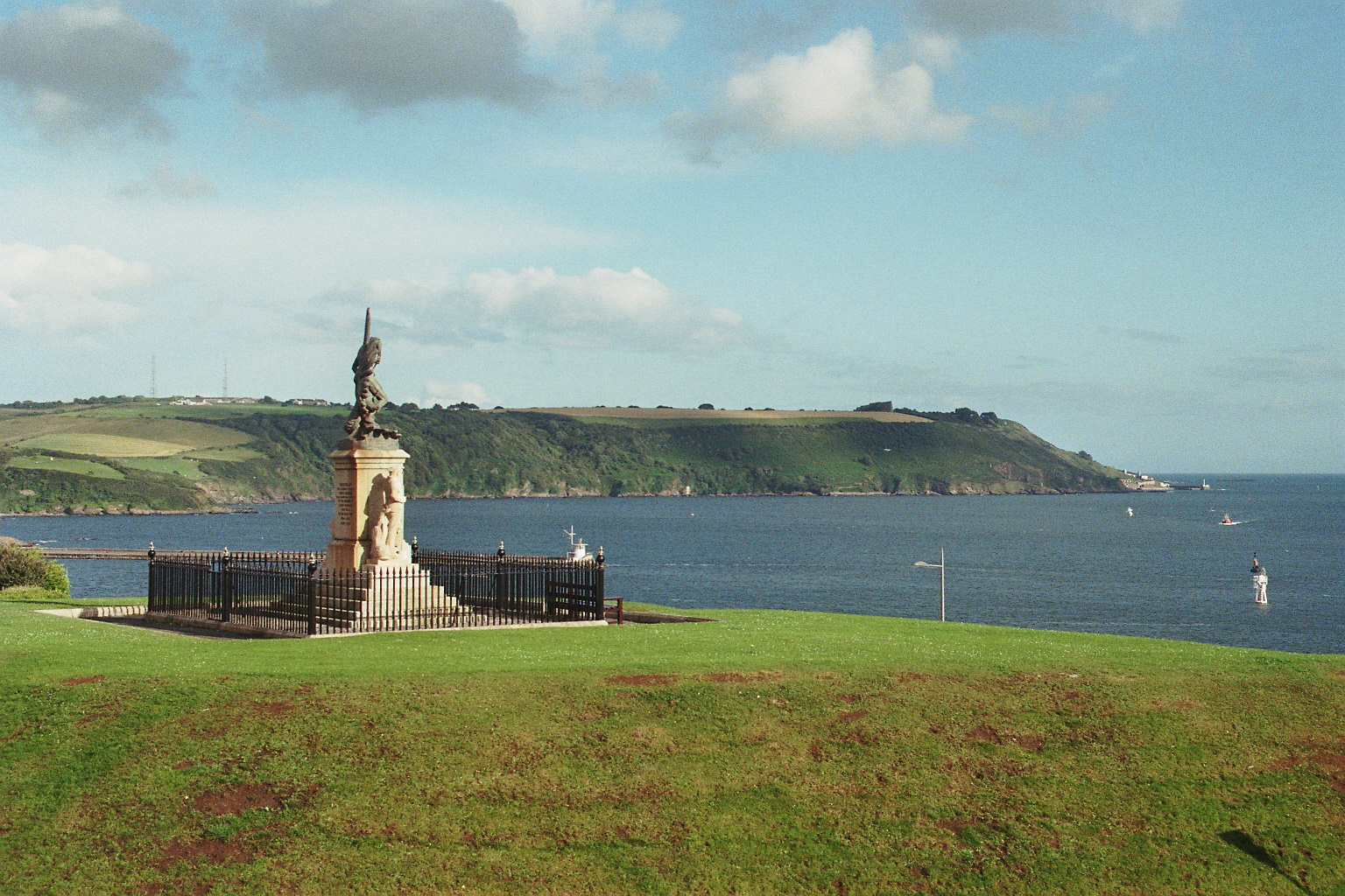 "The Hoe" in Plymouth